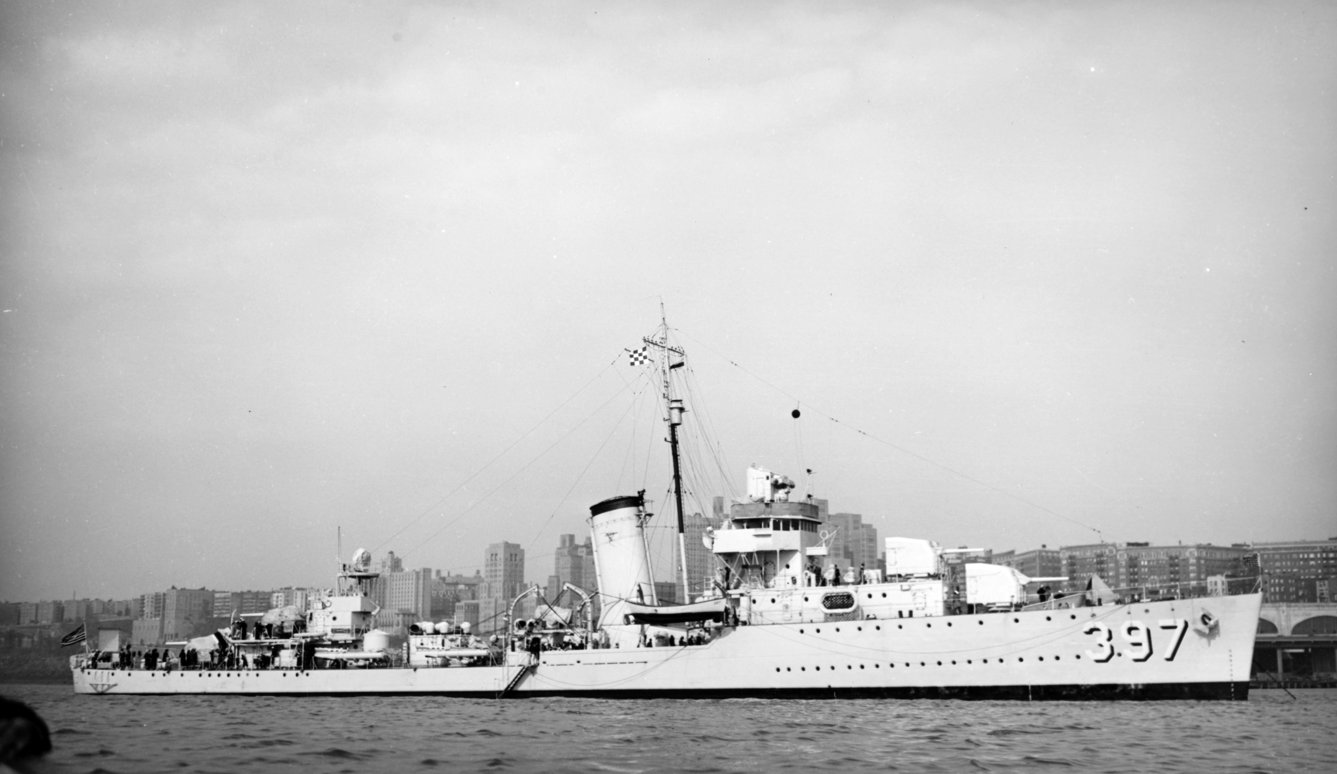 The U.S. Navy destroyer USS Benham (DD-397) anchored off New York City (USA), during a naval review in 1939.